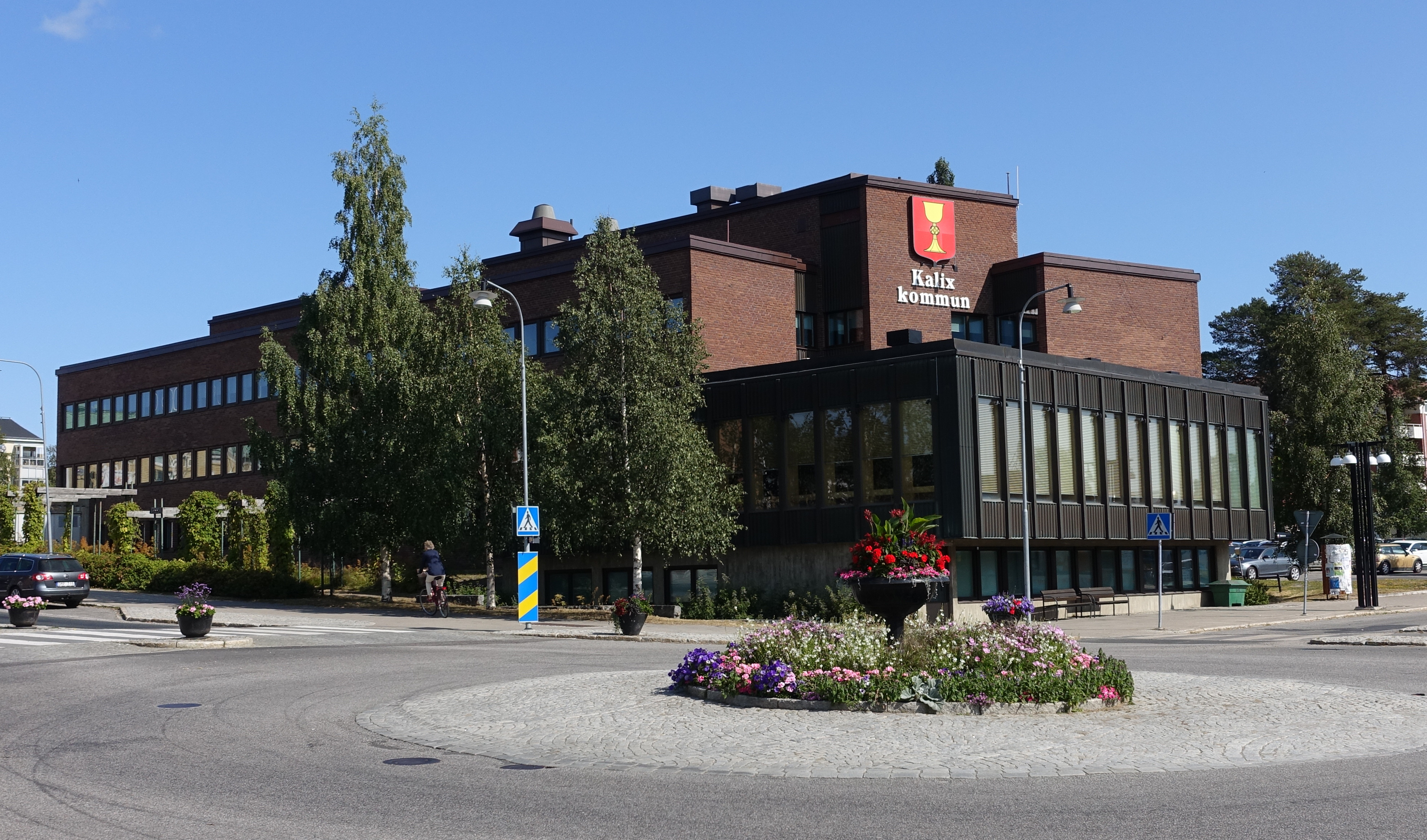 Kommunhuset i Kalix